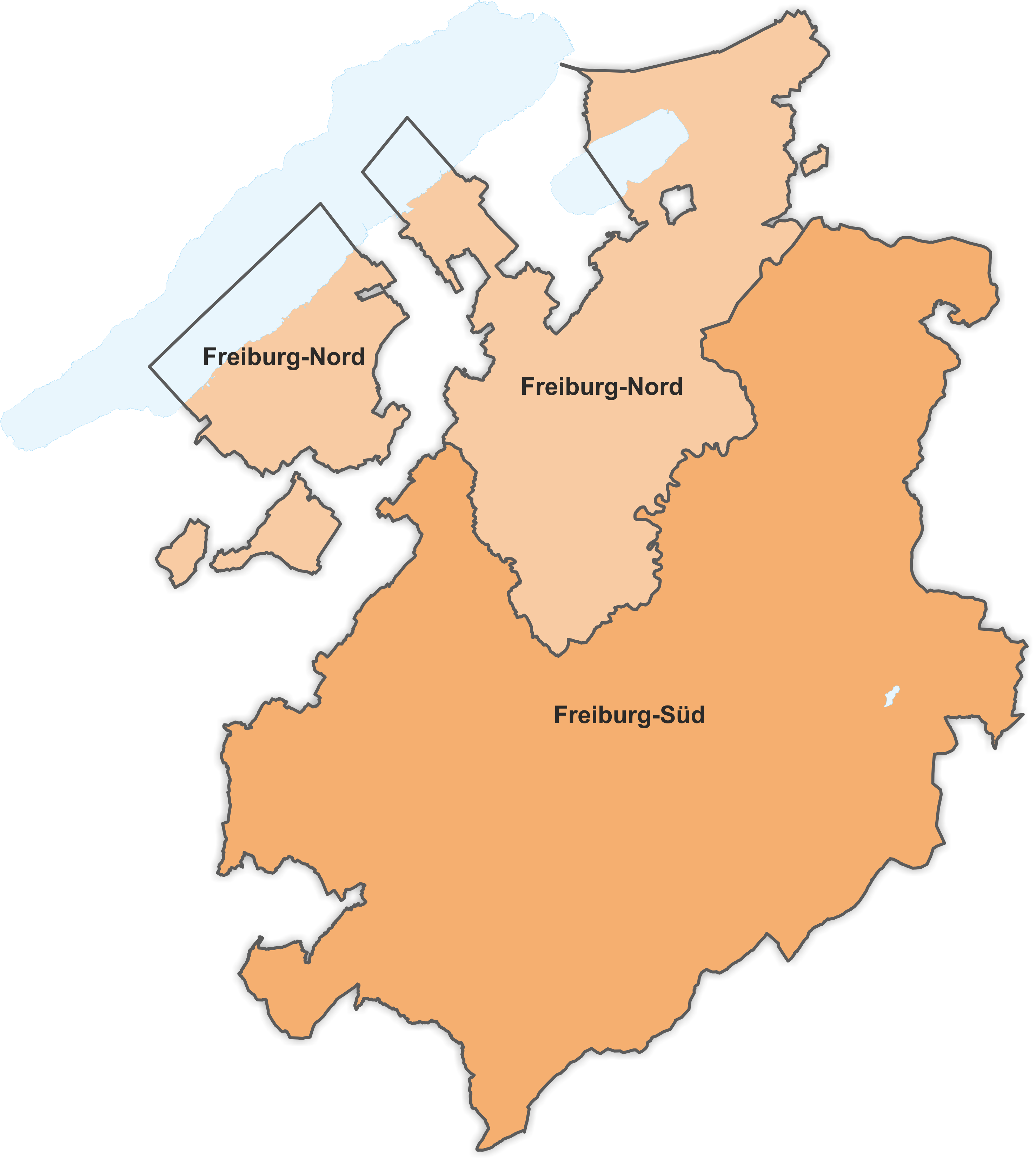 National council constituencies in the canton of Fribourg from 1872 to 1878